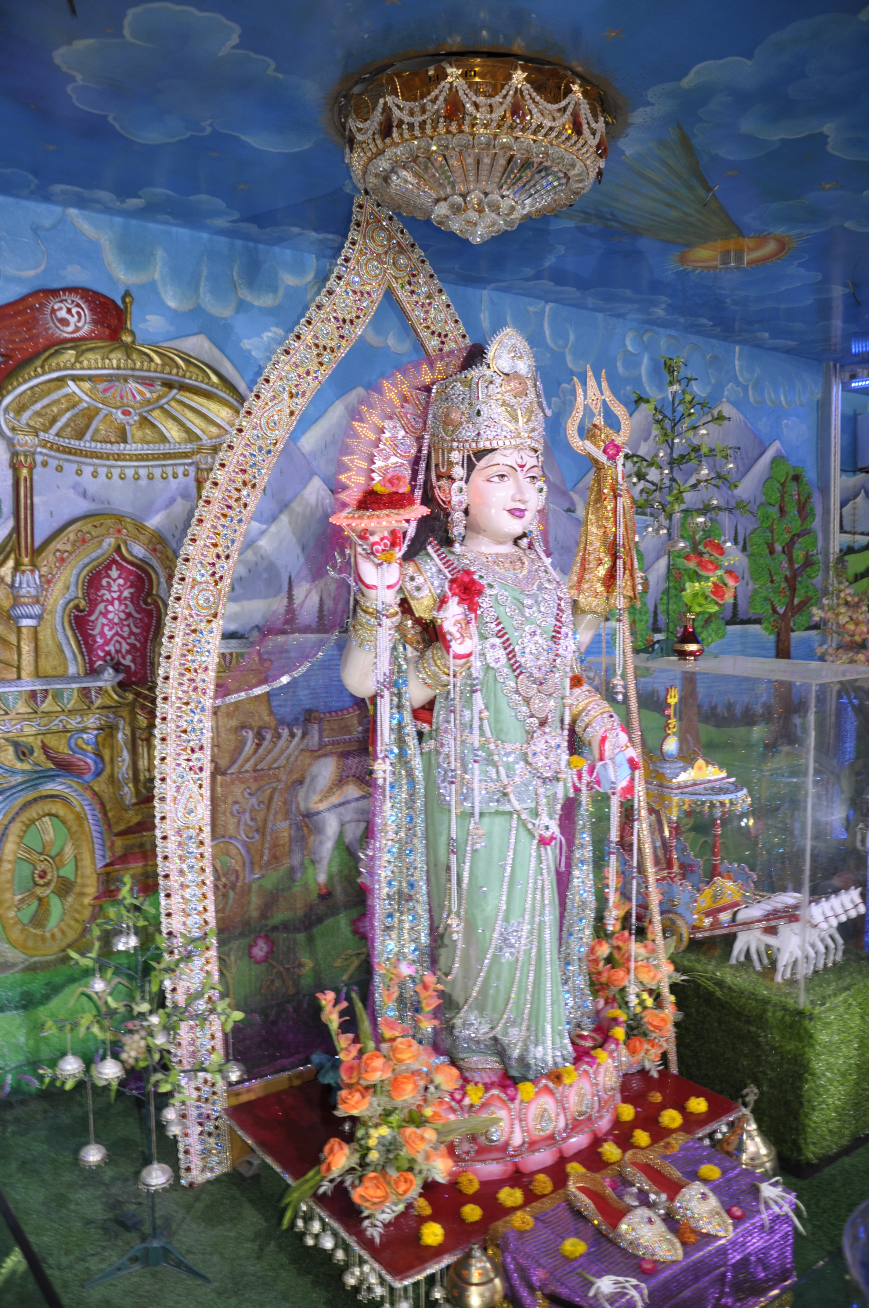 VishvamBhari Maa